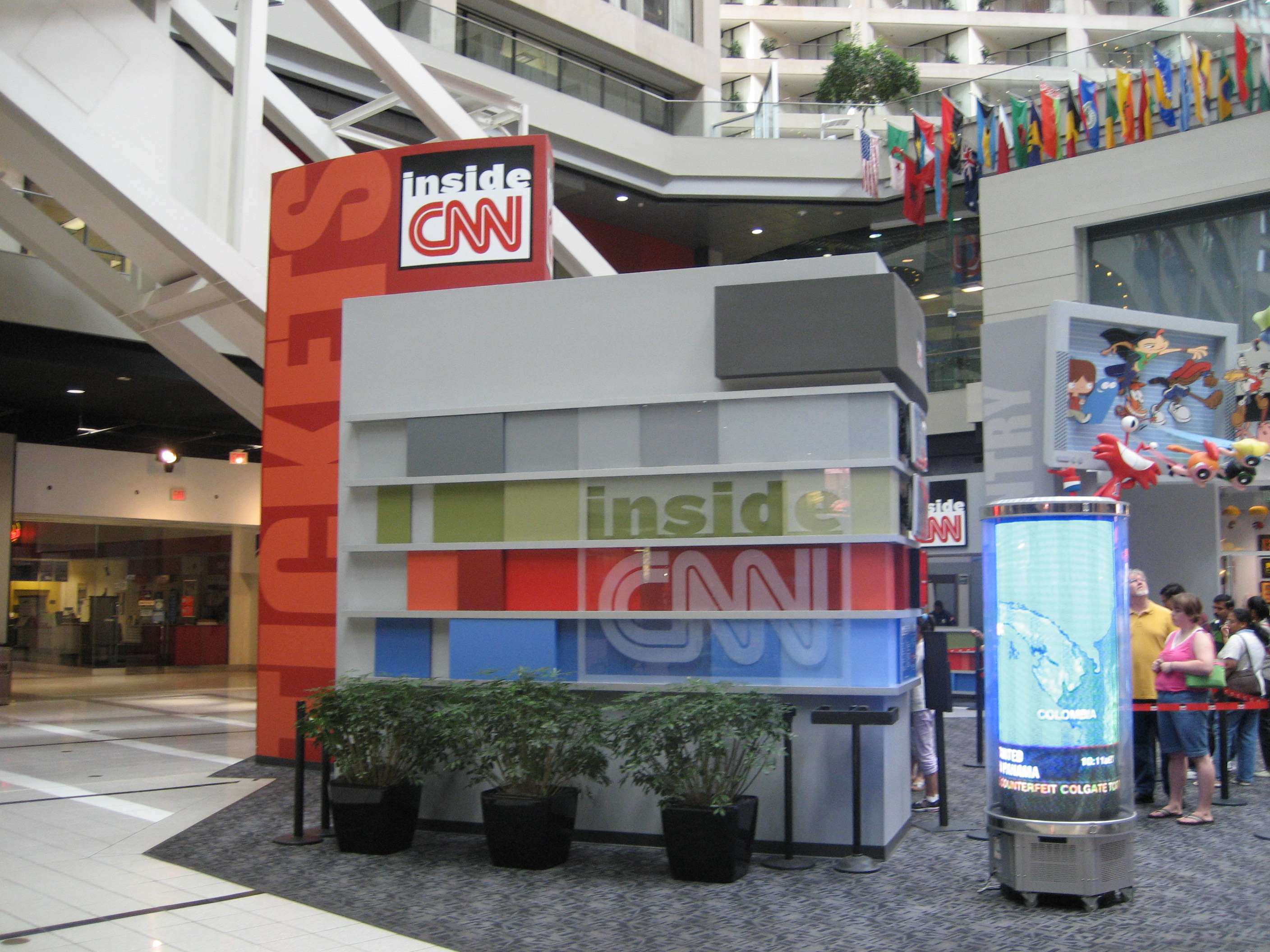 The check in booth for the "Inside CNN Studio Tour". Photo: Chris Green Summary The check in booth for the "Inside CNN Studio Tour". Photo: Chris Green